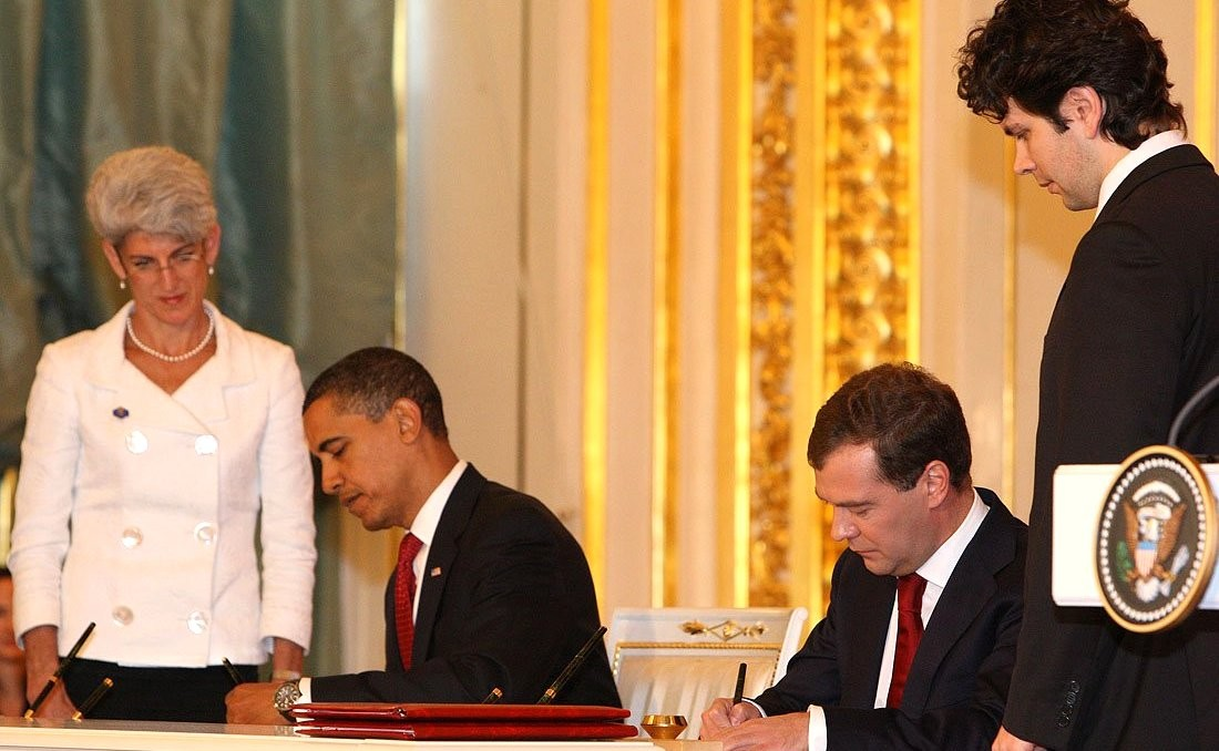 GRAND KREMLIN PALACE, MOSCOW. Signing of documents. With President of the United States of America Barack Obama.